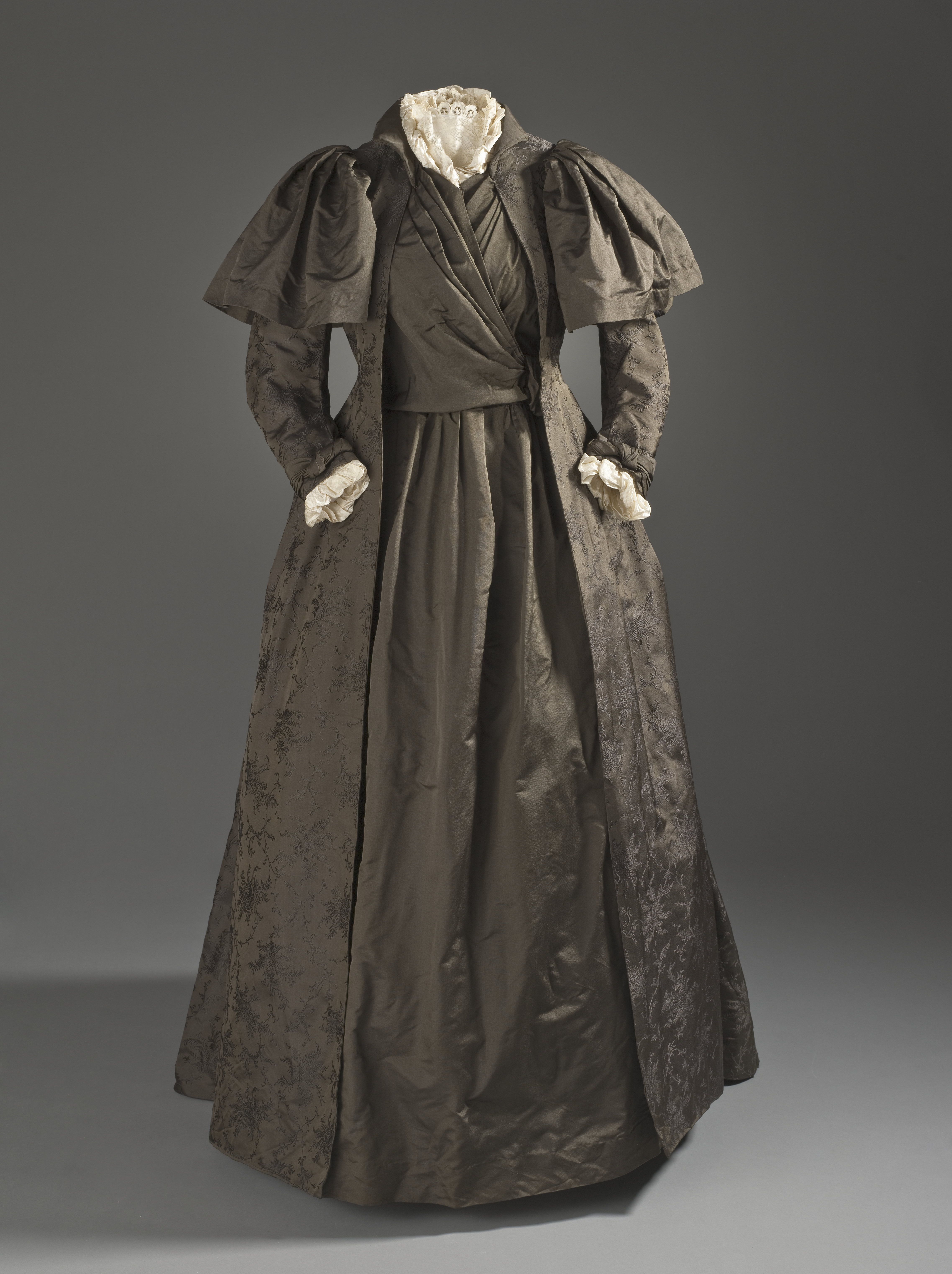 Woman's tea gown by Liberty & Co. of London, circa 1887. Silk twill with supplementary weft-float patterning.